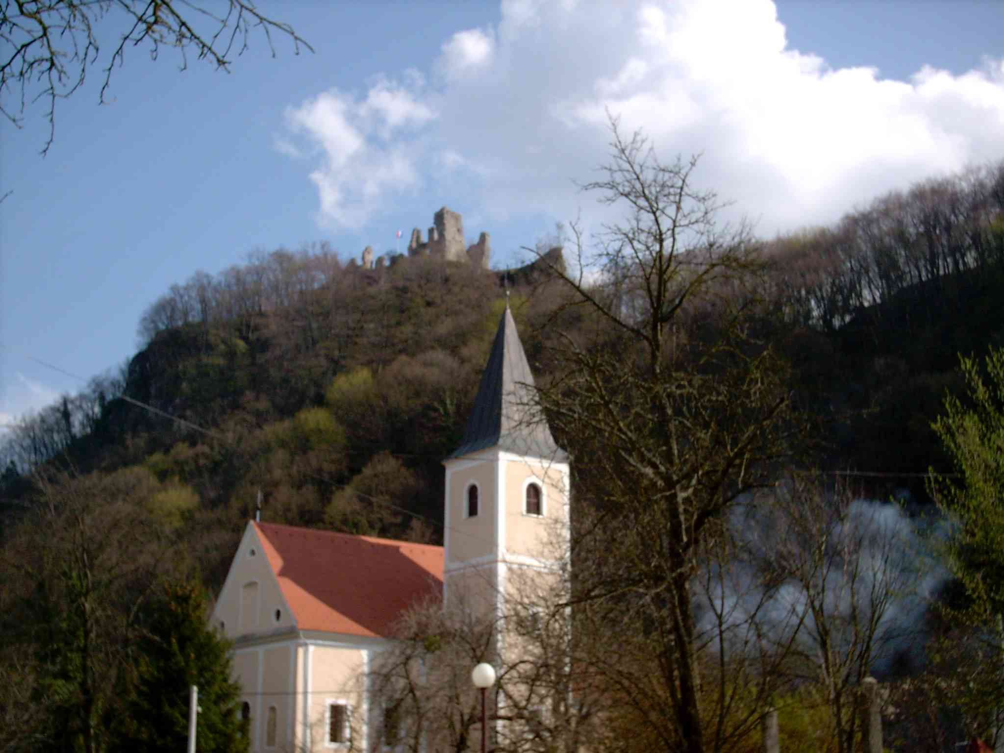 Ruins of Kostelgrad castle near Pregrada, northwestern Croatia